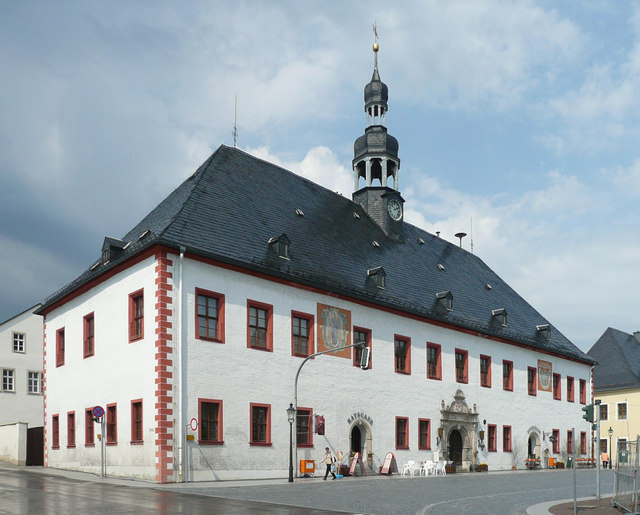 the townhall in Marienberg.